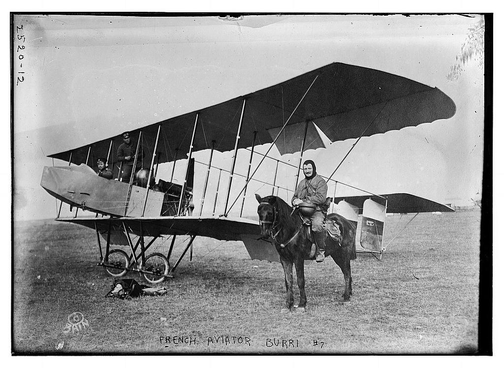 Bain News Service,, publisher. French Aviator Burri #7 between 1910 and 1915 1 negative : glass ; 5 x 7 in. or smaller. Notes: Title from unverified data provided by the Bain News Service on the negatives or caption cards. Forms part of: George Grantham Bain Collection (Library of Congress). Format: Glass negatives. Repository: Library of Congress, Prints and Photographs Division, Washington, D.C. 20540 USA, General information about the Bain Collection is available at Persistent URL: Call Number: LC-B2- 2520-12